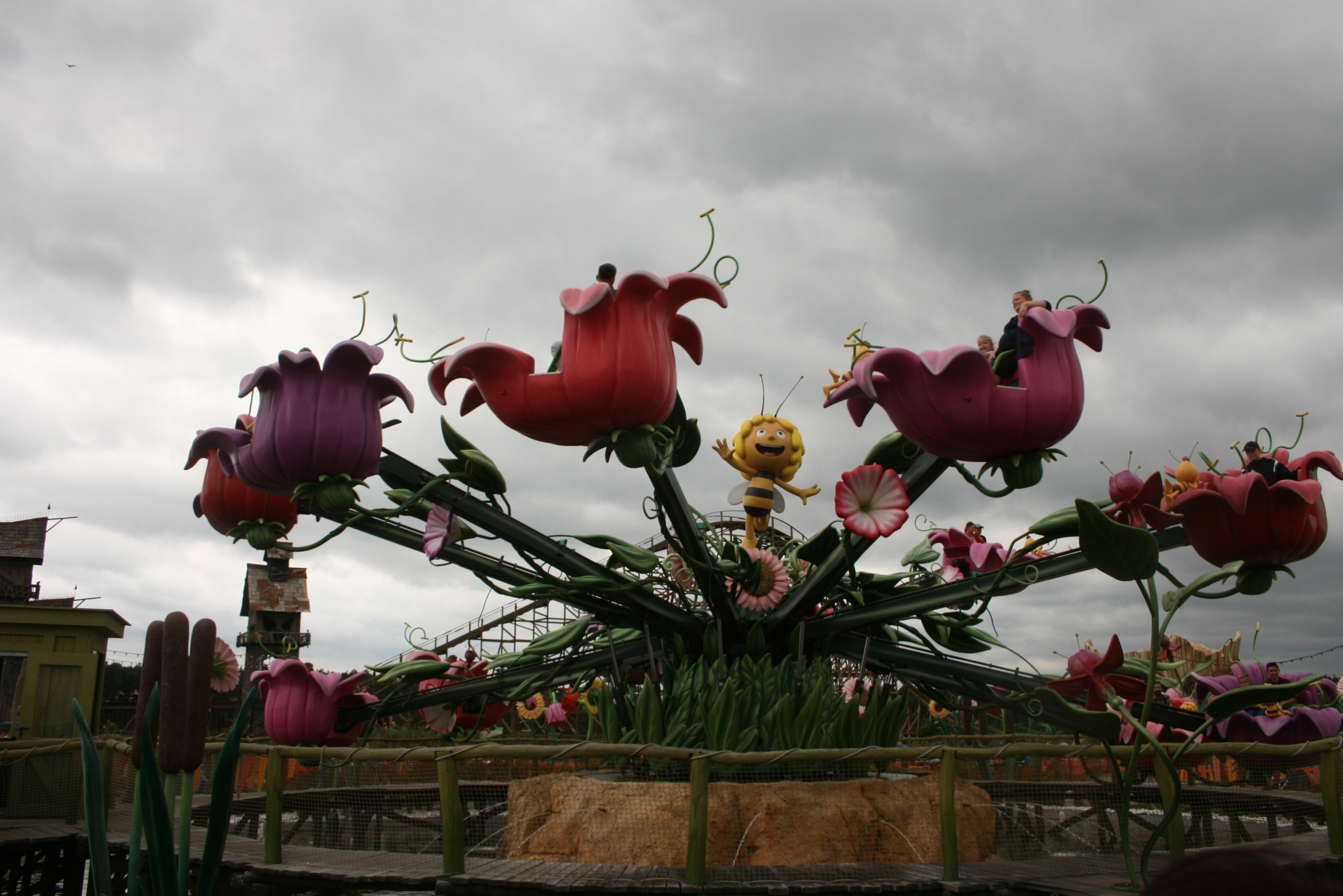 Ride "Karuzela Kwiatów" in Majaland Kownaty. August 2019